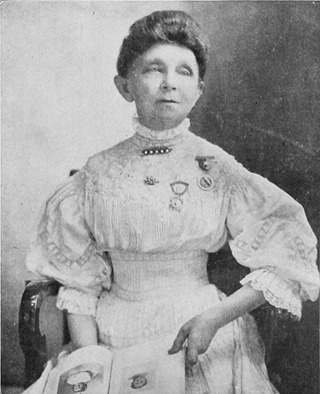 Cornelia Branch Stone in 1908. Stone was born in Nacogdoches, Republic of Texas, in February 1840. Her father, Edward Thomas Branch, fought in the Texas Revolution, served in the Congress of the Republic of Texas, was an Associate Justice of the Texas Supreme Court, and served in the Texas State House of Representatives. She was the wife of businessman Henry Clay Stone, a Virginian who took up residence in Galveston, Texas, in the United States. Her husband died in 1887. She was a fierce advocate for women's involvement in the political process, president of Texas Federation of Women's Clubs, an officer in the Daughters of the Republic of Texas, and president of the United Daughters of the Confederacy. Her son, Dr. Harry D. Stone, died about 1907. She was also the aunt of Representative Clay Stone Briggs. Cornelia Branch Stone died on January 18, 1925.